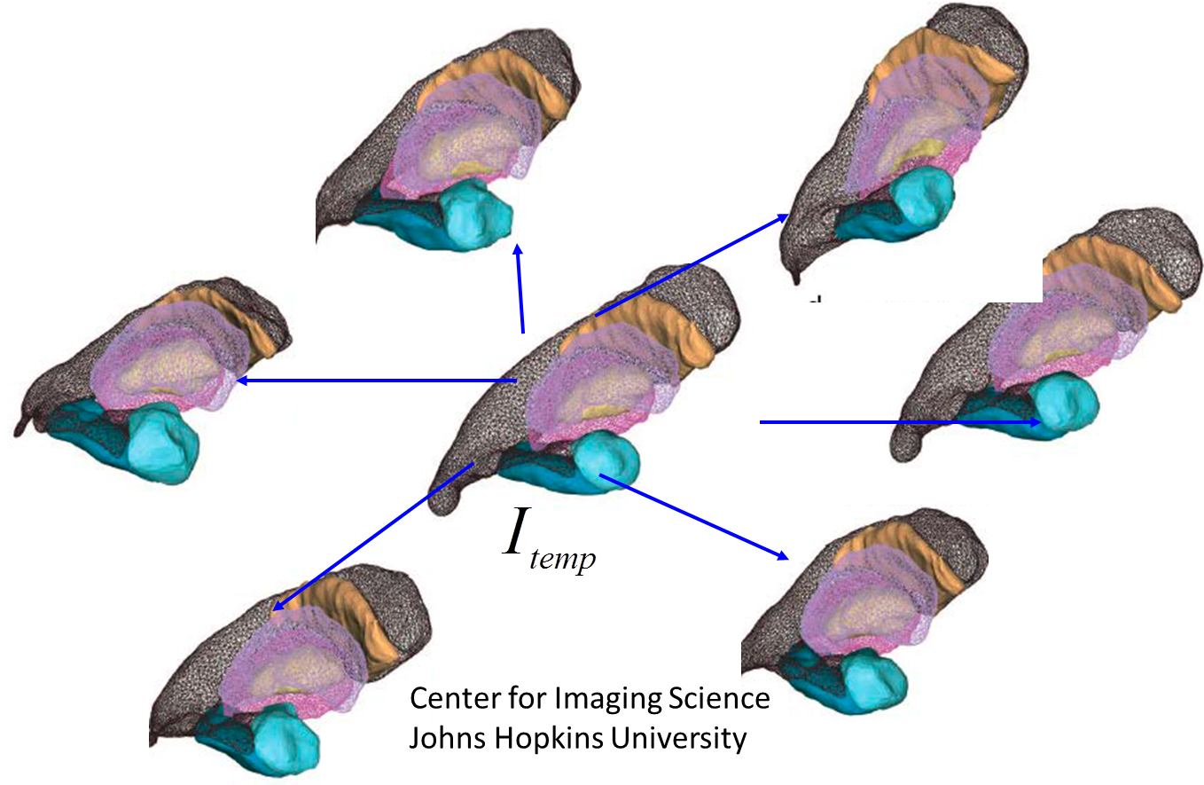 depicting template generation procedure from populations